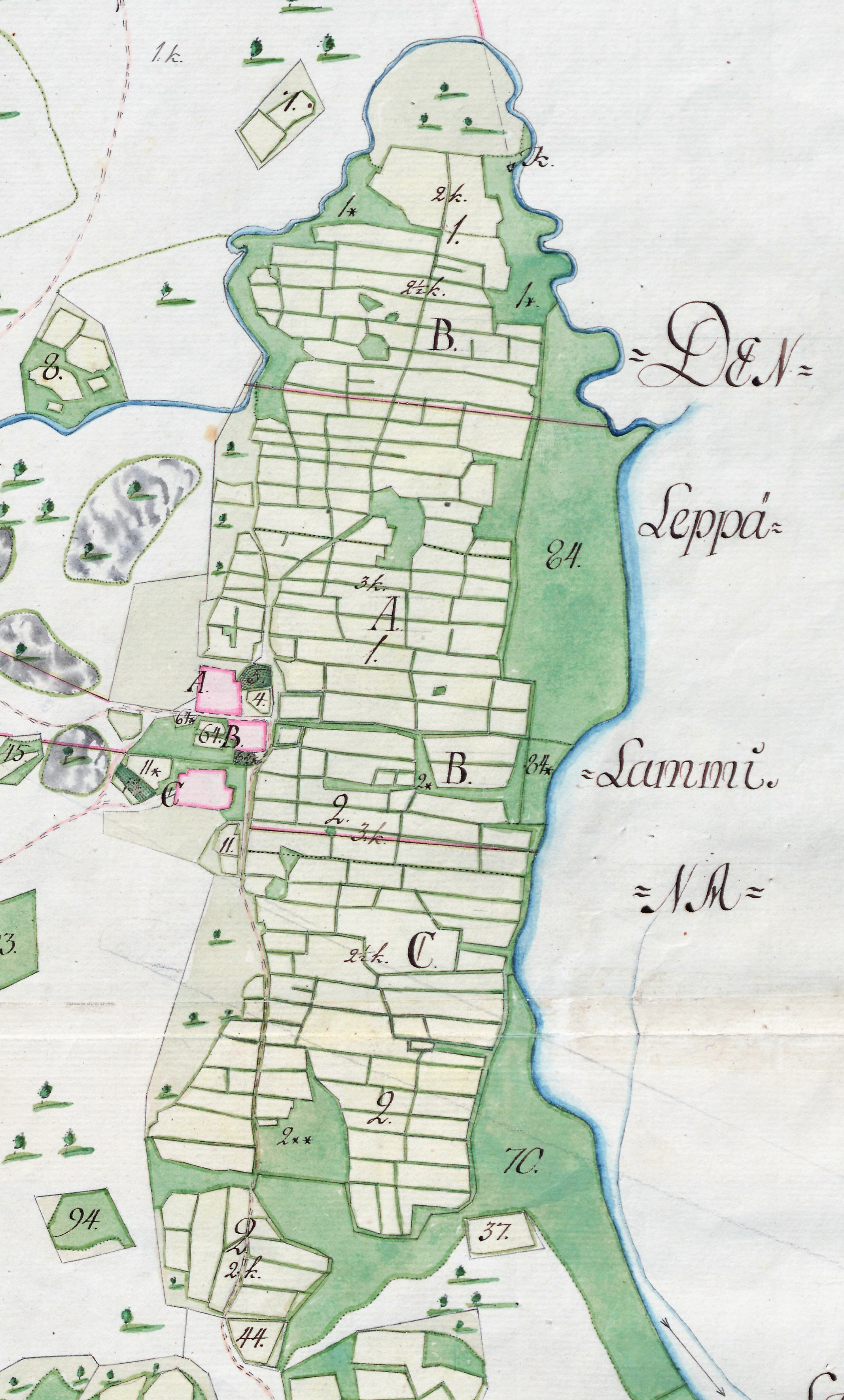 Records creator: Maanmittaushallitus, \nArchive/Fond: Maanmittaushallituksen uudistusarkisto , \nSeries: Suodenniemi, \nUnit: A98:9/1-5 LeppÃ¤lammi; Isojako, \nInclusive dates: 1782 - 1788\n